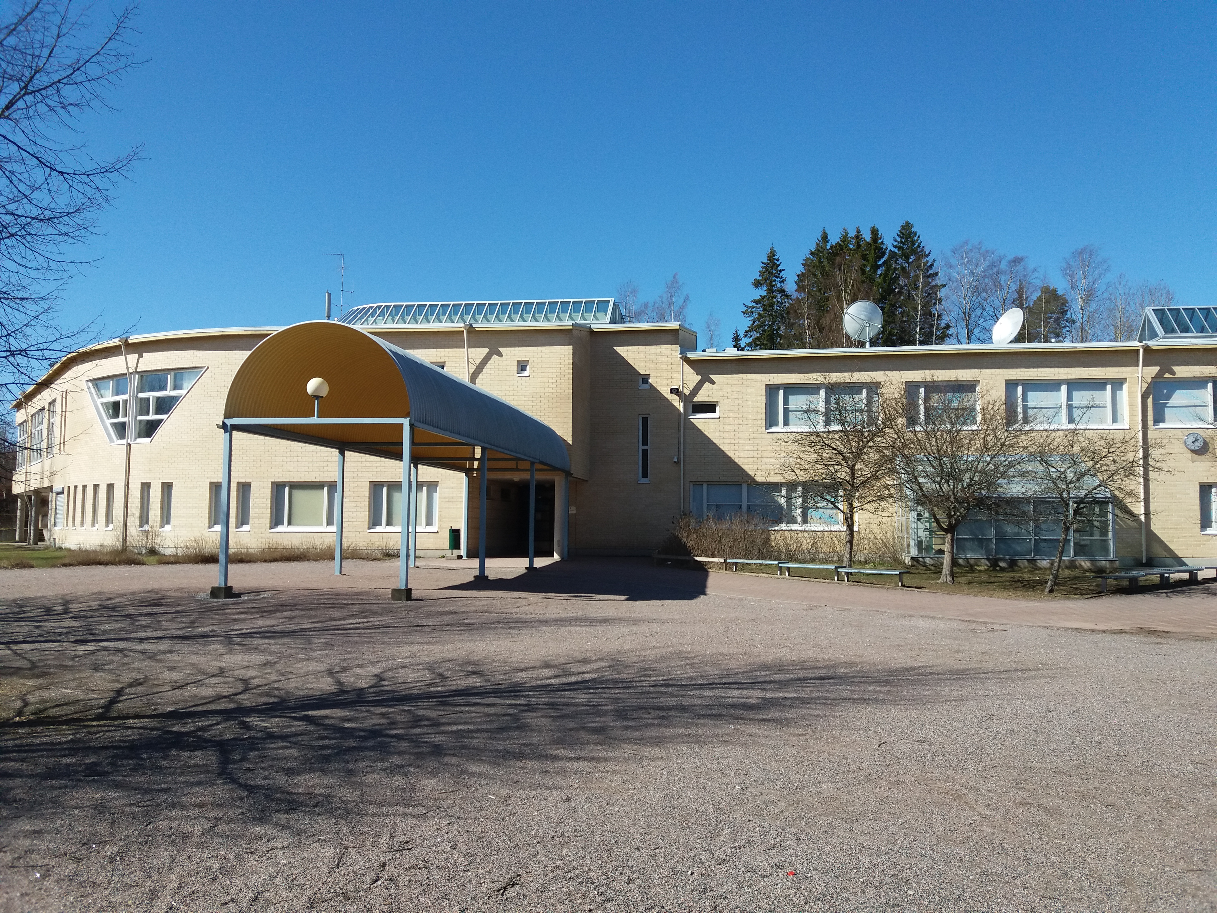 Saarnilaakson koulu is an upper comprehensive school in Espoo, Finland